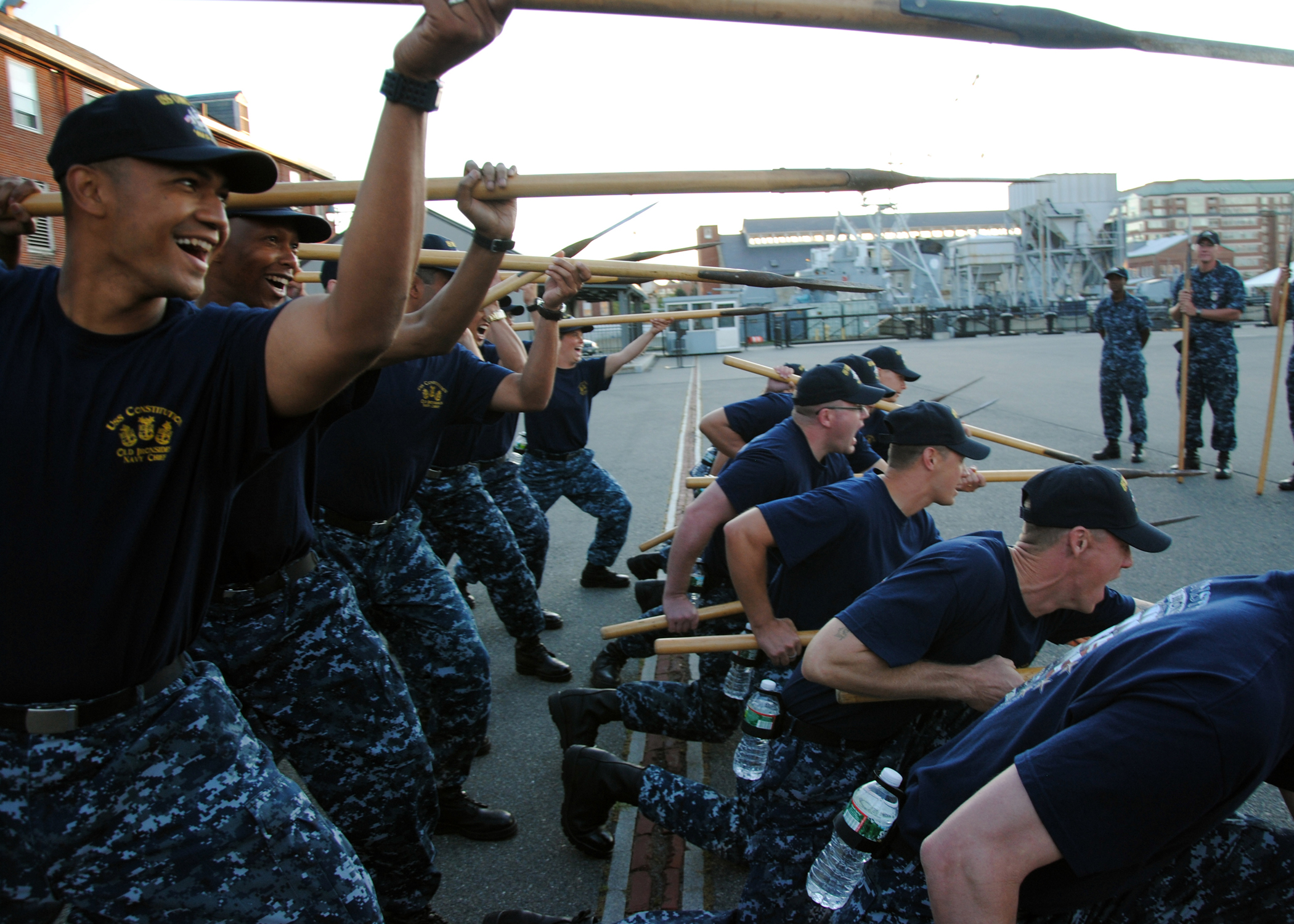 CHARLESTOWN, Mass. (Aug. 23, 2011) Chief petty officer selects perform 17th century boarding pike drills during USS Constitution's Chief Petty Officer Heritage Week. During heritage week, chief petty officer selects live and train aboard Constitution, the world's oldest commissioned warship afloat. (U.S. Navy photo by Mass Communication Specialist Seaman Shannon Heavin/Released)